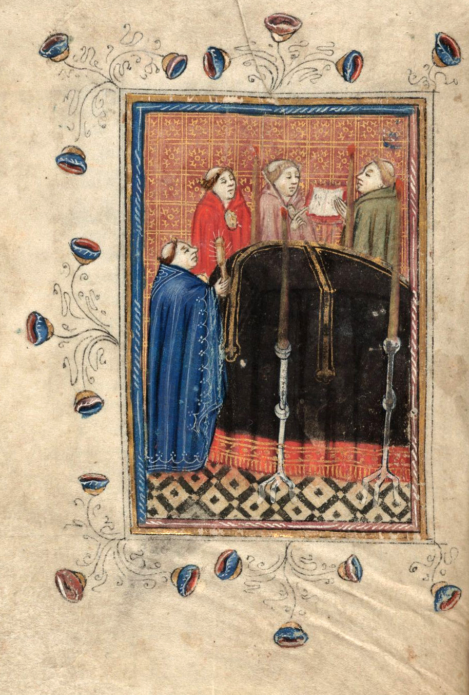 Illustration from a manuscript Book of Hours, titled Horae beatae Mariae virginis (use of Sarum). Circa 1400. MS Richardson 5, Houghton Library, Harvard University